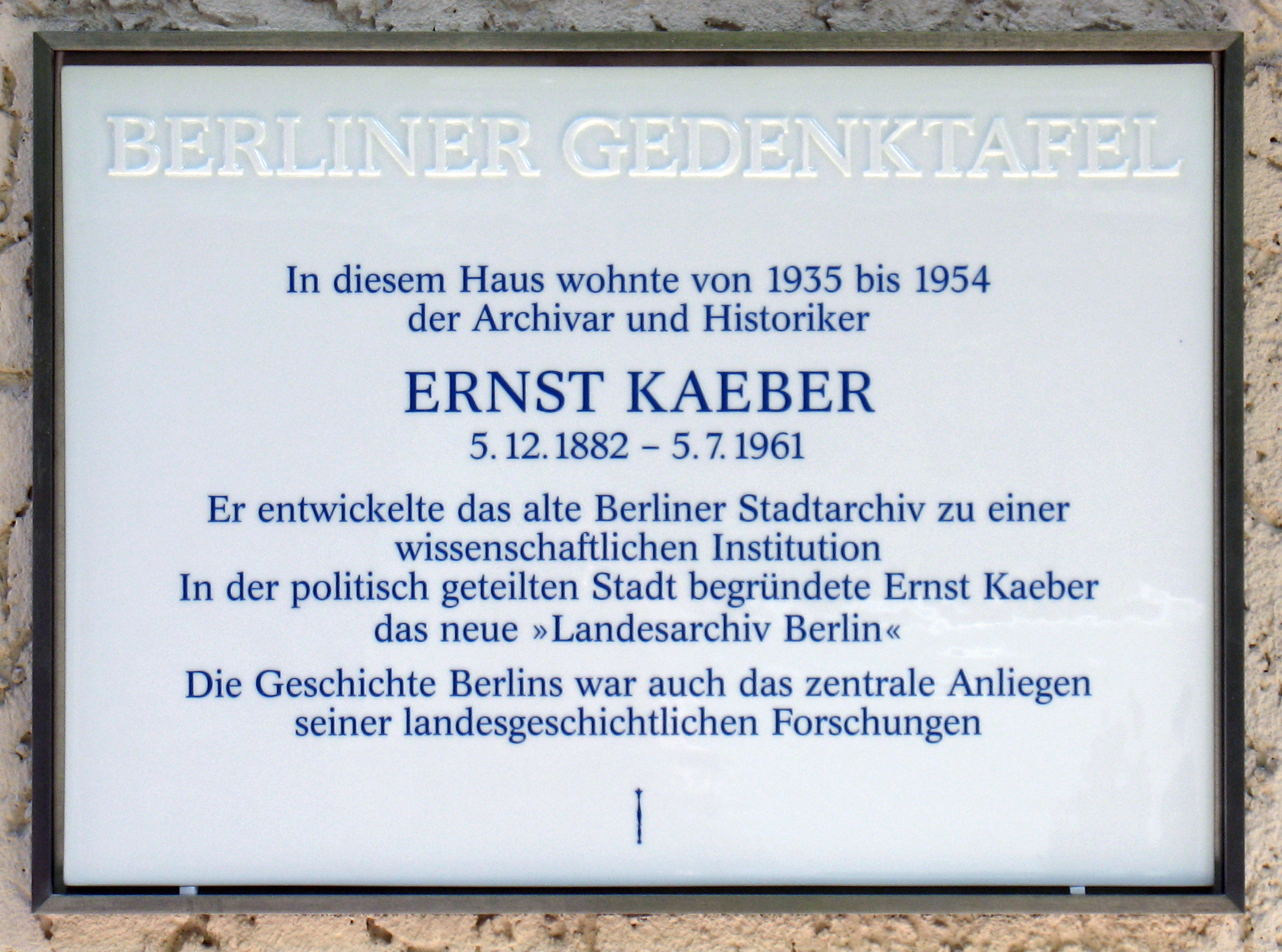 Berlin memorial plaque, Ernst Kaeber, Dortmunder Straße 6, Berlin-Moabit, Germany